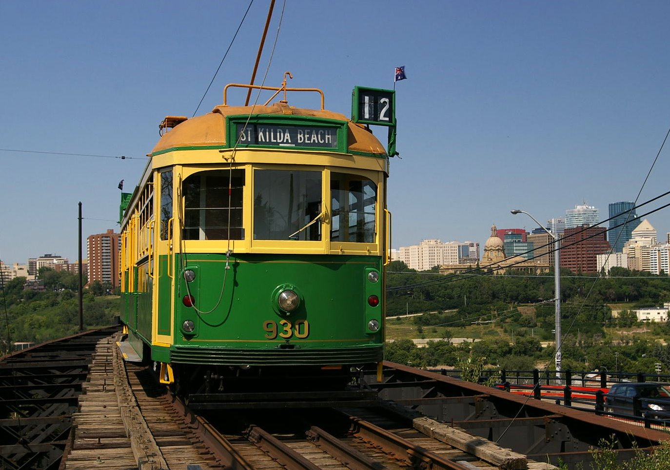 I have this photo displayed on a photo frame where I work. One lady exclaimed "Cool, it's Melbourne! Look!" A moment later, her boyfriend: "No, it's just Edmonton"